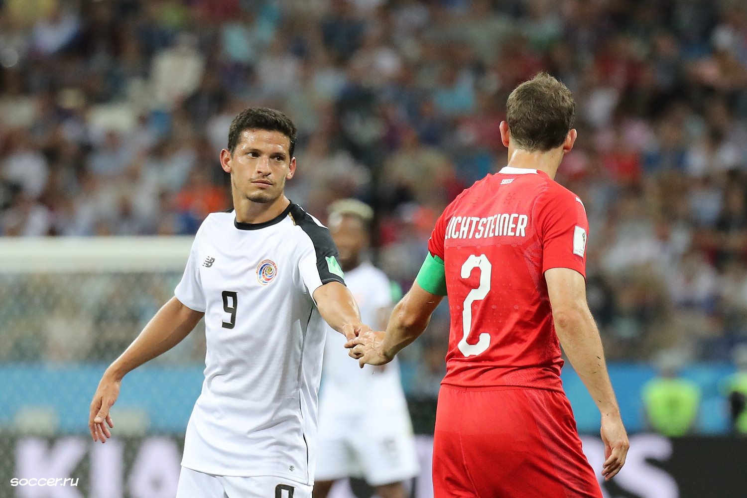 Daniel Colindres (left) and Stephan Lichtsteiner (right) at the 2018 FIFA World Cup match between Costa Rica and Switzerland.